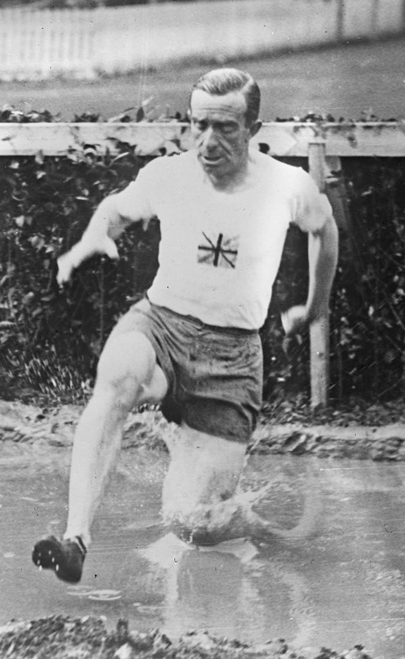 Olympic Games, Antwerp, Belgium, 3000 Metres Steeplechase, Great Britain's Percy Hodge who won the gold medal